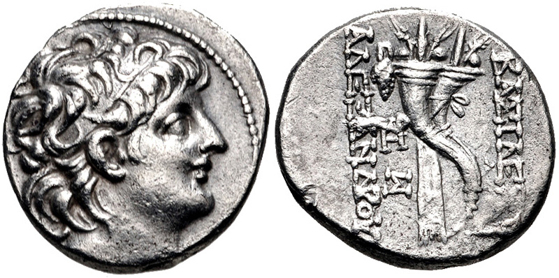 from the website: 324, Lot: 187. Estimate $150. Sold for $170. This amount does not include the buyer’s fee. SELEUKID KINGS of SYRIA. Alexander II Zabinas. 128-122 BC. AR Drachm (16mm, 4.12 g, 1h). Antioch mint. Diademed head right / Filleted double cornucopia; to inner left, monogram above Σ. SC 2221.3a; HGC 9, 1154. VF.